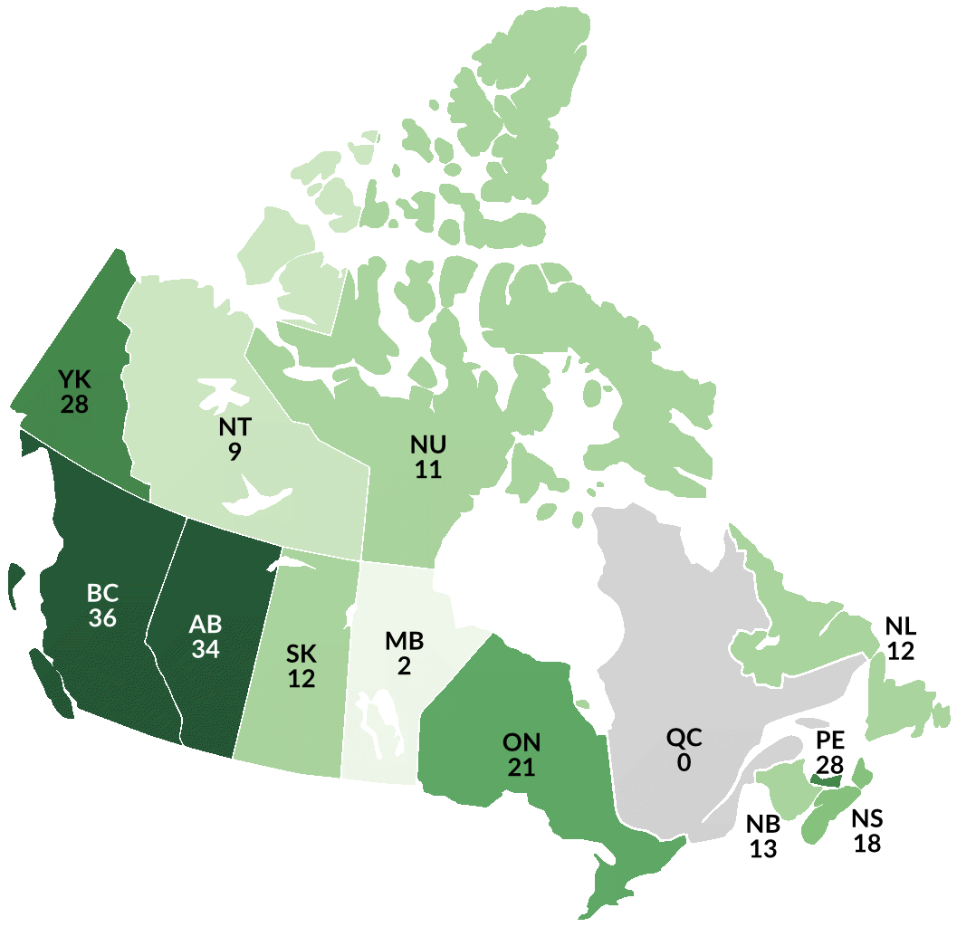 Number of Years each Provinces and Territories had with positive interprovincial immigration from 1971 to 2019. 0 years 1 to 5 years 6 to 10 years 11 to 15 years 16 to 20 years 21 to 25 years 26 to 30 years Over 31 years Note: Out of 48 years.